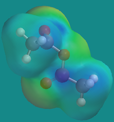 An electron density potential map of acetic anhydride (one perspective)